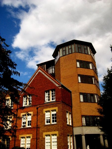 Picture of the main entrance and common area for St. Edmund's College, Cambridge